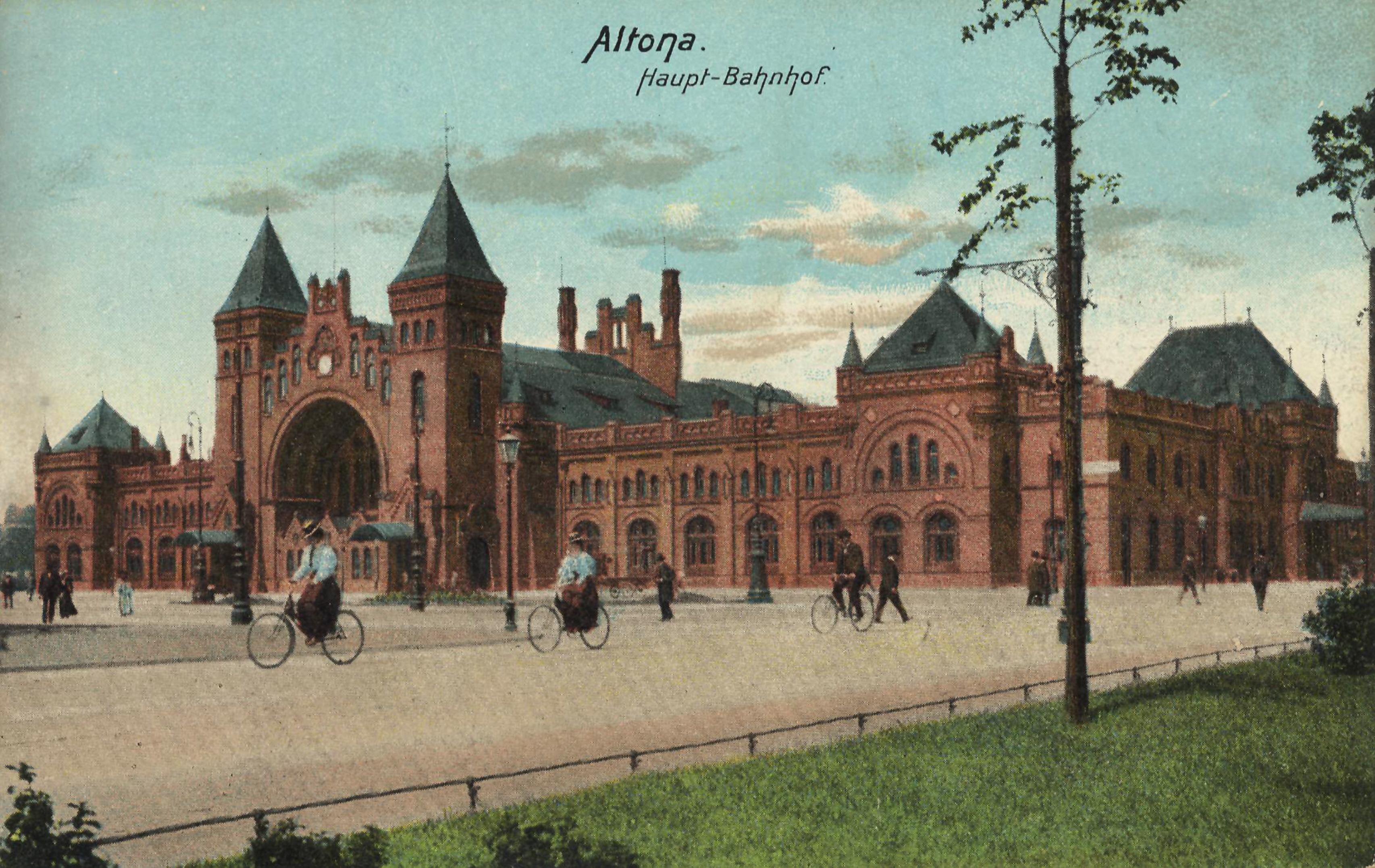 Bahnhof Altona